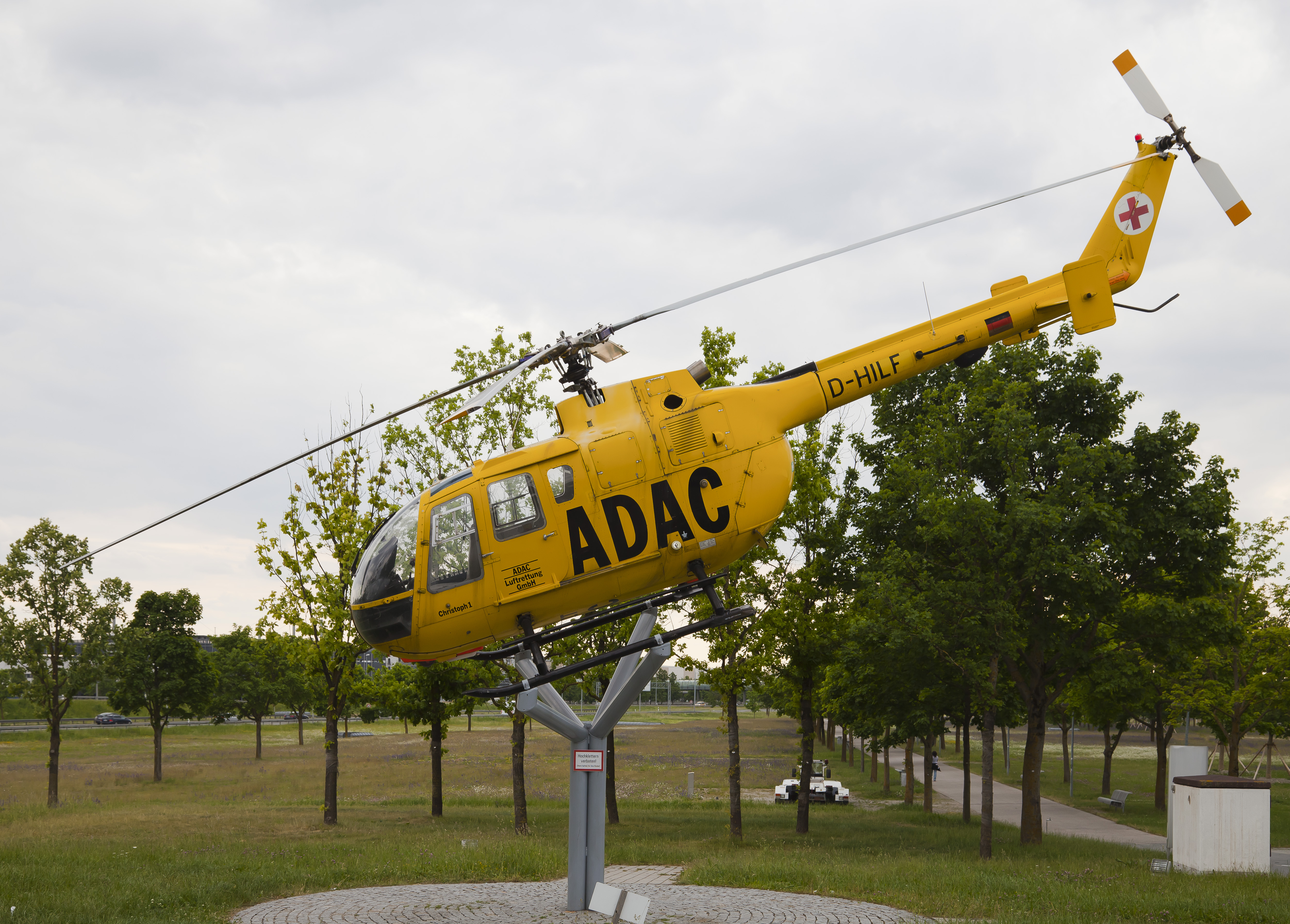 Rescue helicopter Bölkow Bo 105 de ADAC 'Christoph 1', Visitors Park, Munich Airport, Germany